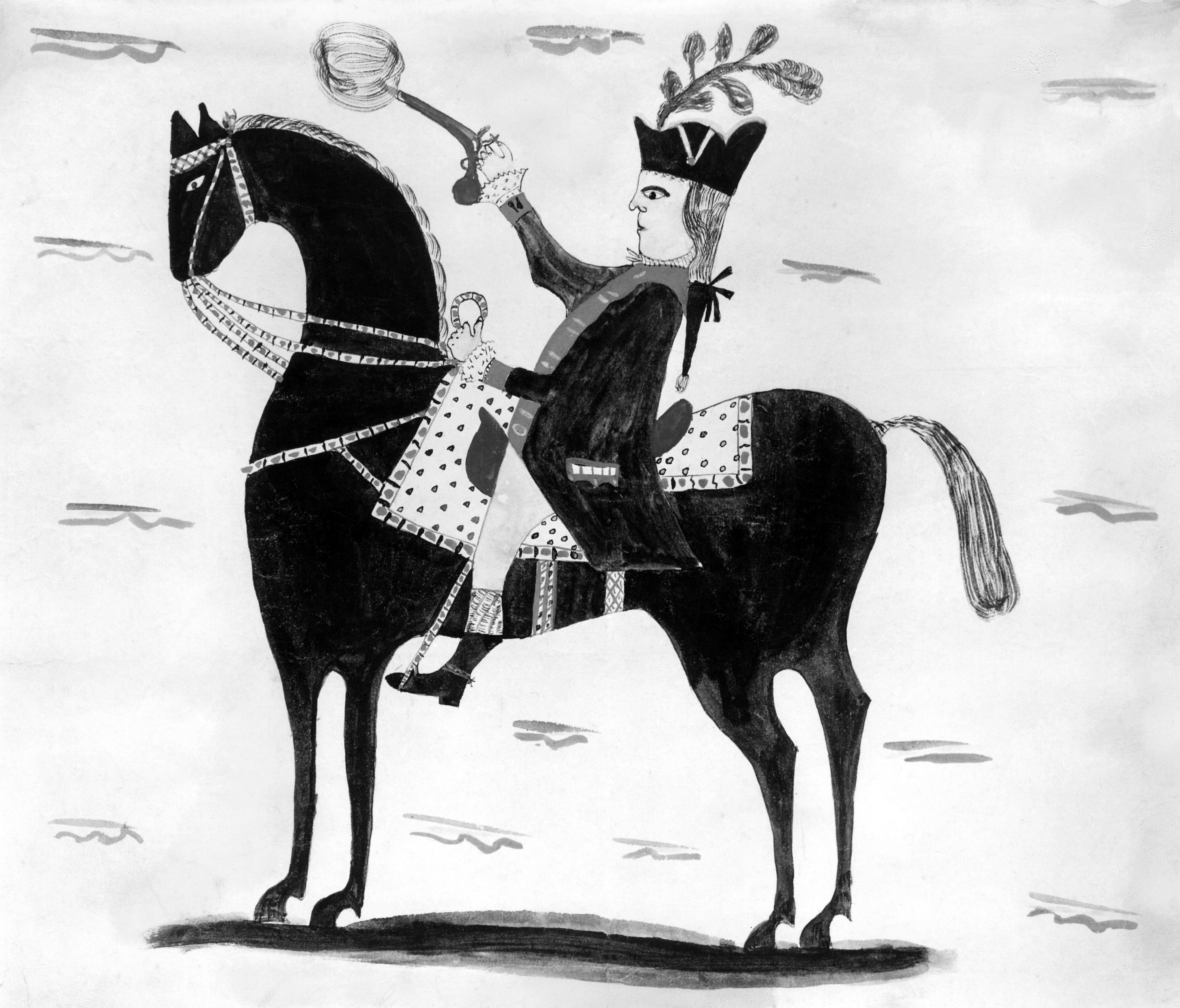 Mary Ann Willson, George Washington, undated. Watercolor, Rhode Island School of Design, Museum of Art, Providence